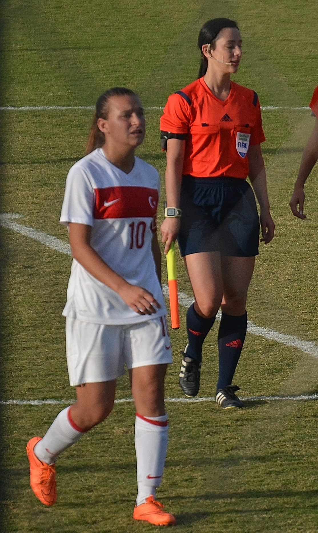 Ece Türkoğlu playing for Turkey Women's U17 on October 20, 2015